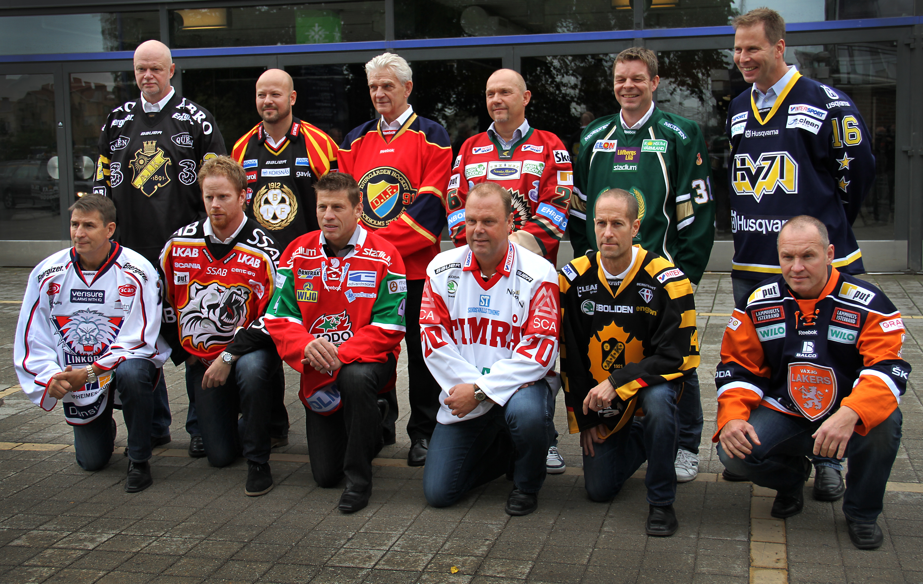 Coaches of the Swedish Hockey League (SHL; formerly Elitserien).